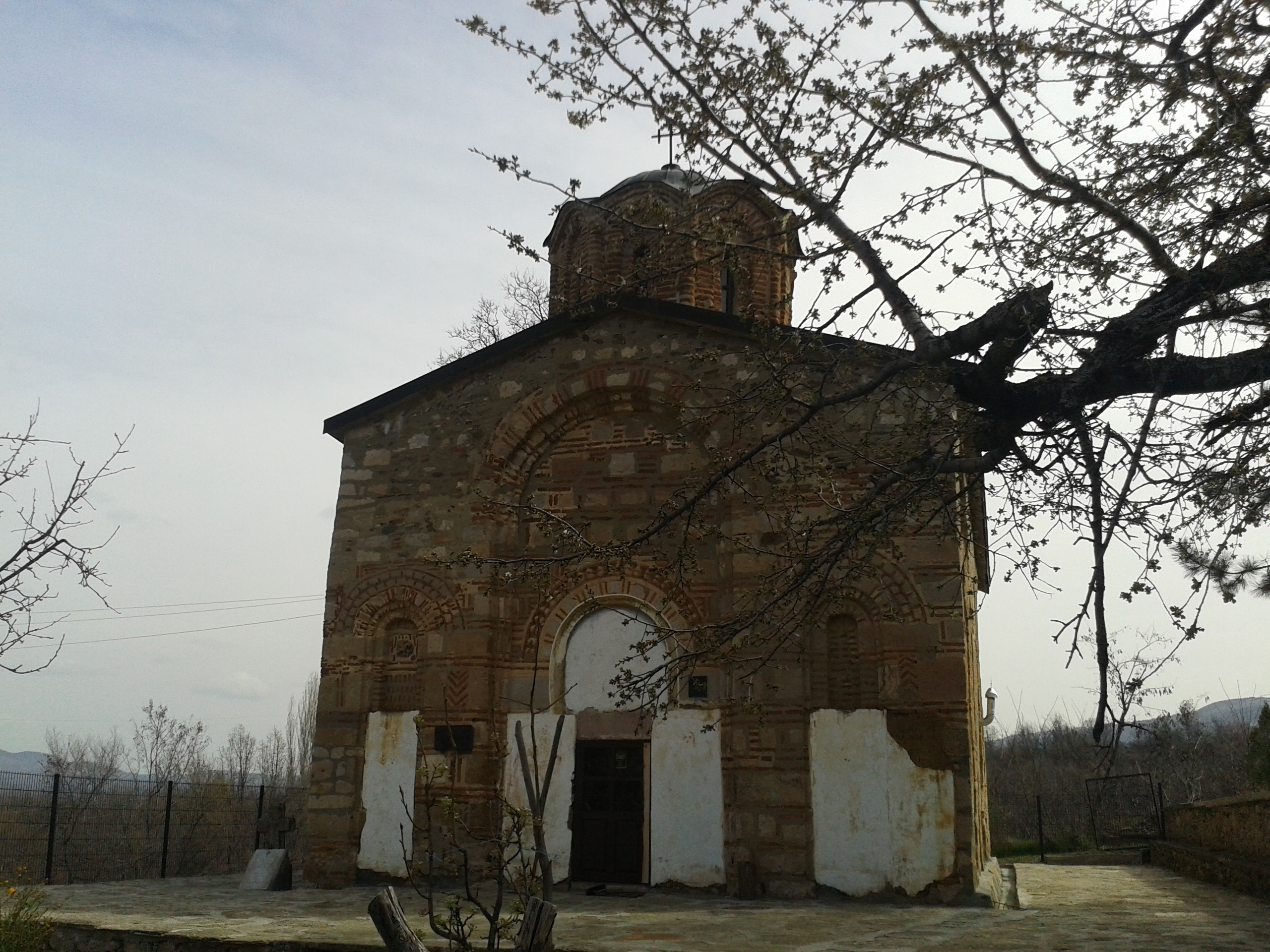 Church of St. Nicholas (Psacha)